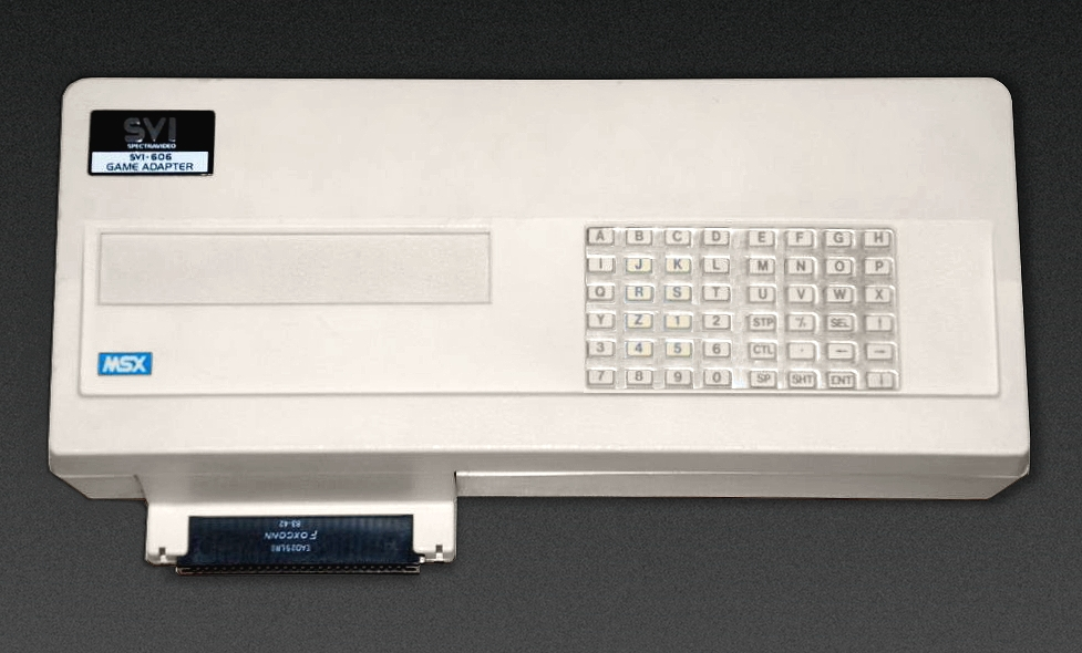 MSX Adapter SVI-606 for SV-318 and SV-328 home computers by Spectravideo.